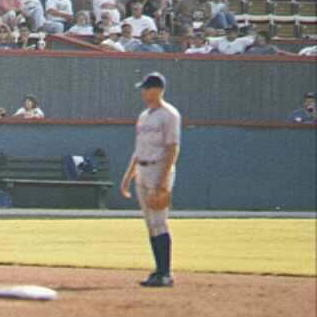 Jason Smith plays second base for the Rockford Cubbies during a 1998 game in Battle Creek, Michigan